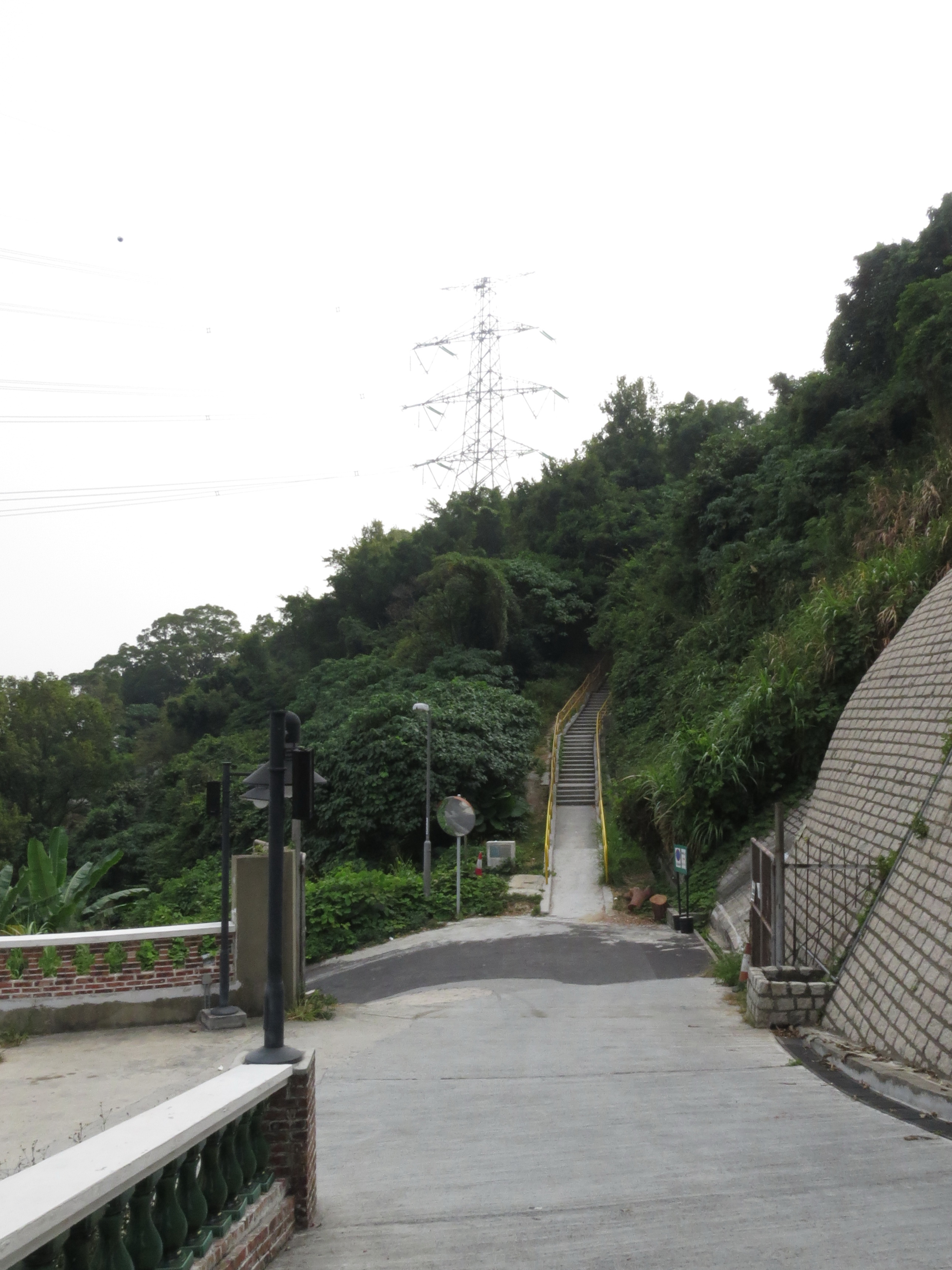 Entrance of the Tsing Shan Trail (stairs with yellow railing). The road at the left and at the foreground is the Tsing Shan Monastery Path.